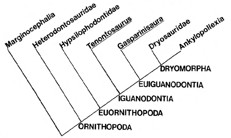 Cladogram after Coria and Salgado (1996)